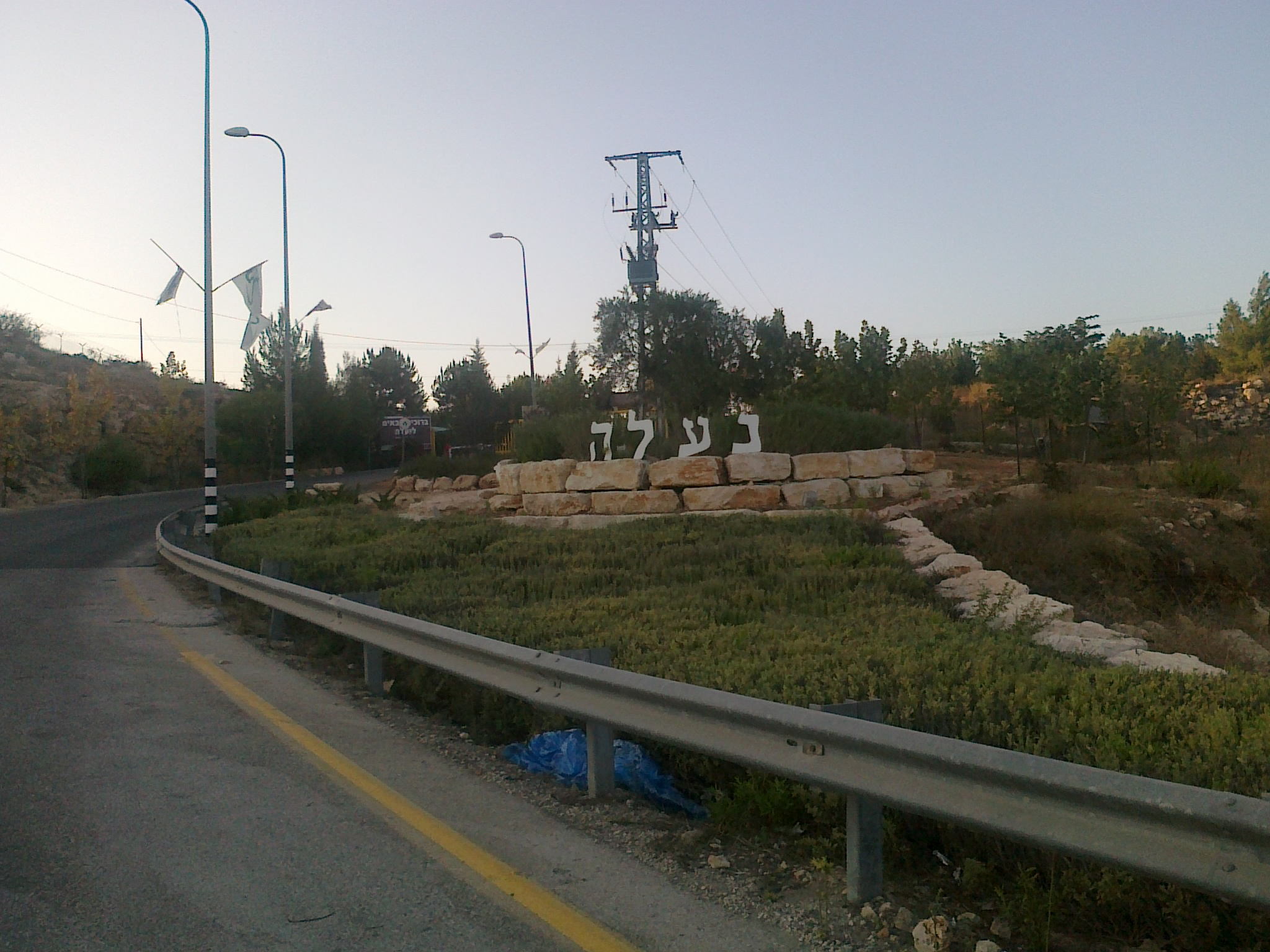 Entrance to Na'ale from Rt. 463.